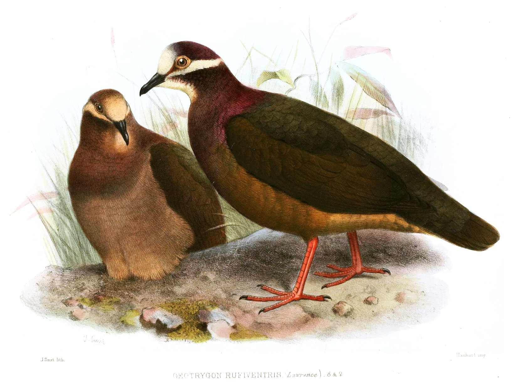 Geotrygon rufiventris = Geotrygon veraguensis